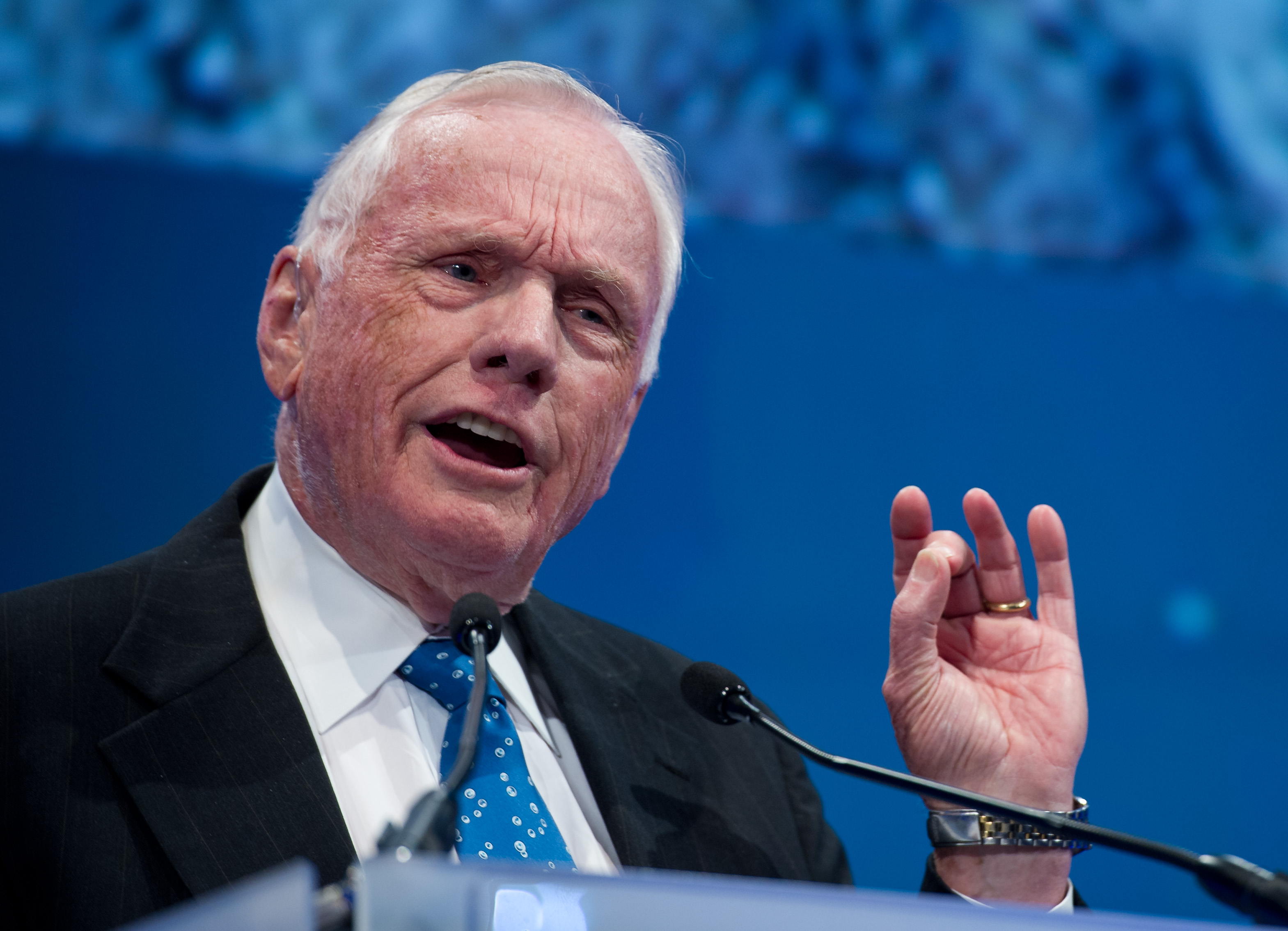 Apollo 11 astronaut Neil Armstrong speaks during a celebration dinner at Ohio State University in Columbus, Ohio, on Monday, 20 February 2012, honouring the 50th anniversary of John Glenn's first spaceflight. Glenn was the first American to orbit the earth in the Friendship 7 spaceflight on 20 February 1962.